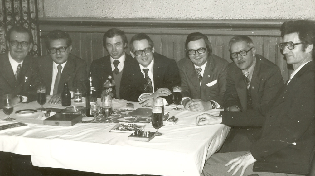 Karl Pohlheim, Horst Böttger, Günter Schiller, Manfred Zucker, Karl-Heinz Siehndel, Helmut Klug, and Fritz Hoffmann (f. l. t. r.) chess composers at a national meeting of the commission for chess problems and studies in Weißenfels, hotel "Goldener Ring"